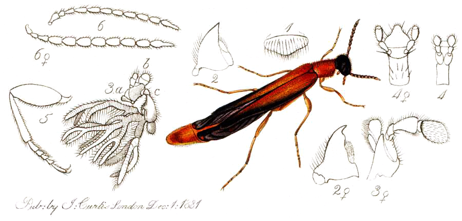 Lymexylon navale, a ship-timber beetle.